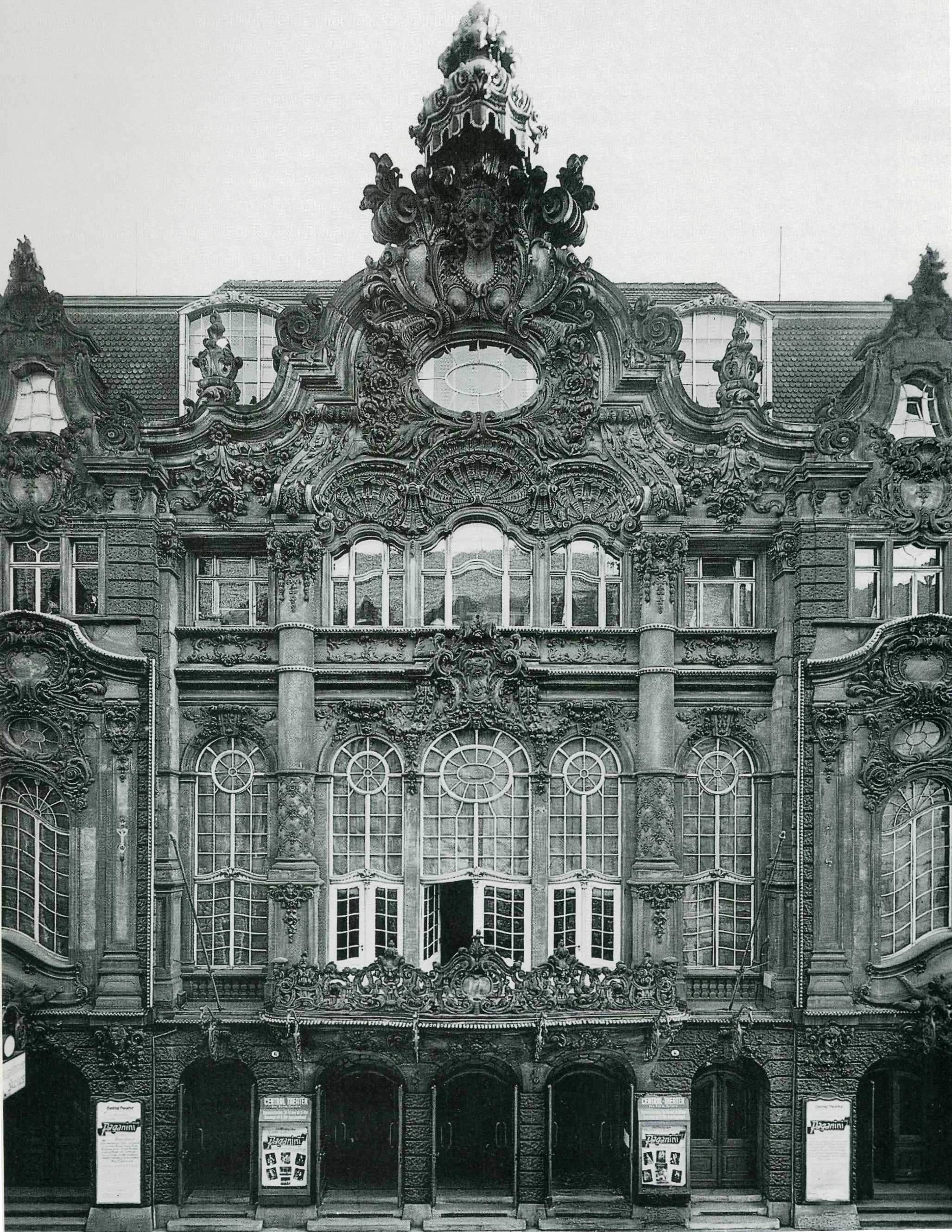 Zentraltheater Dresden